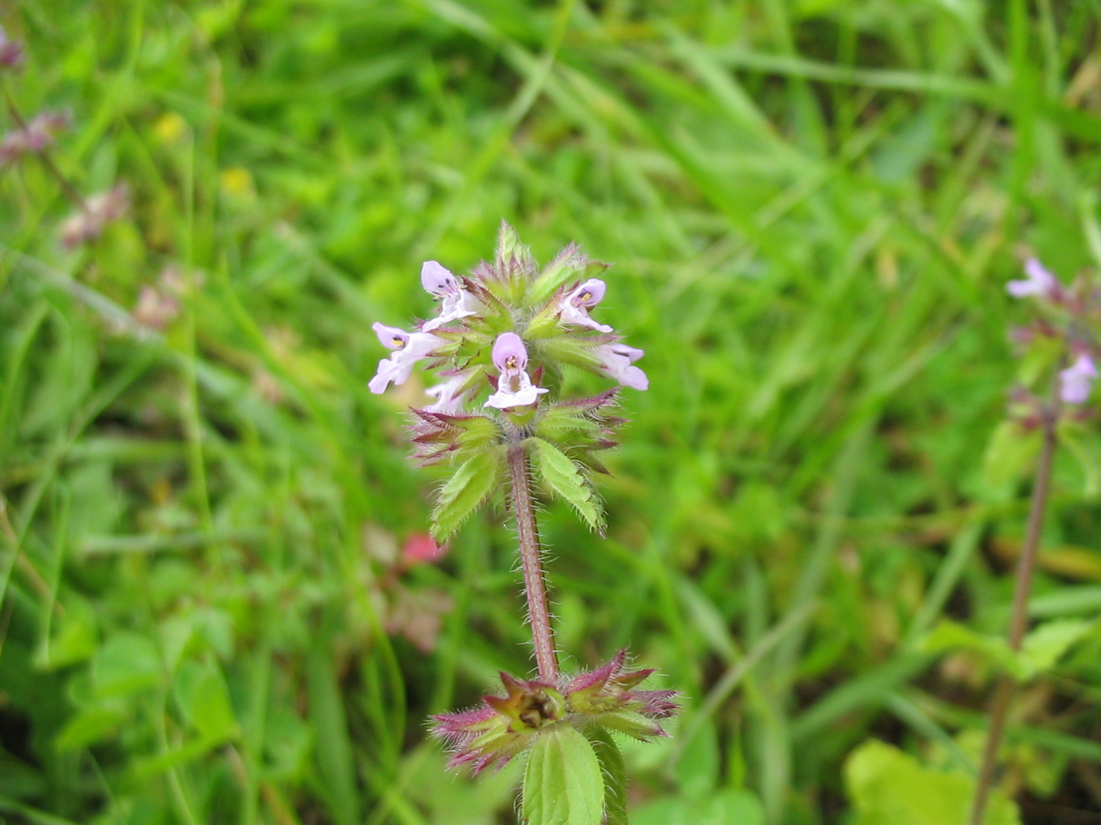 Stachys arvensis on Sao Jorge, Azores